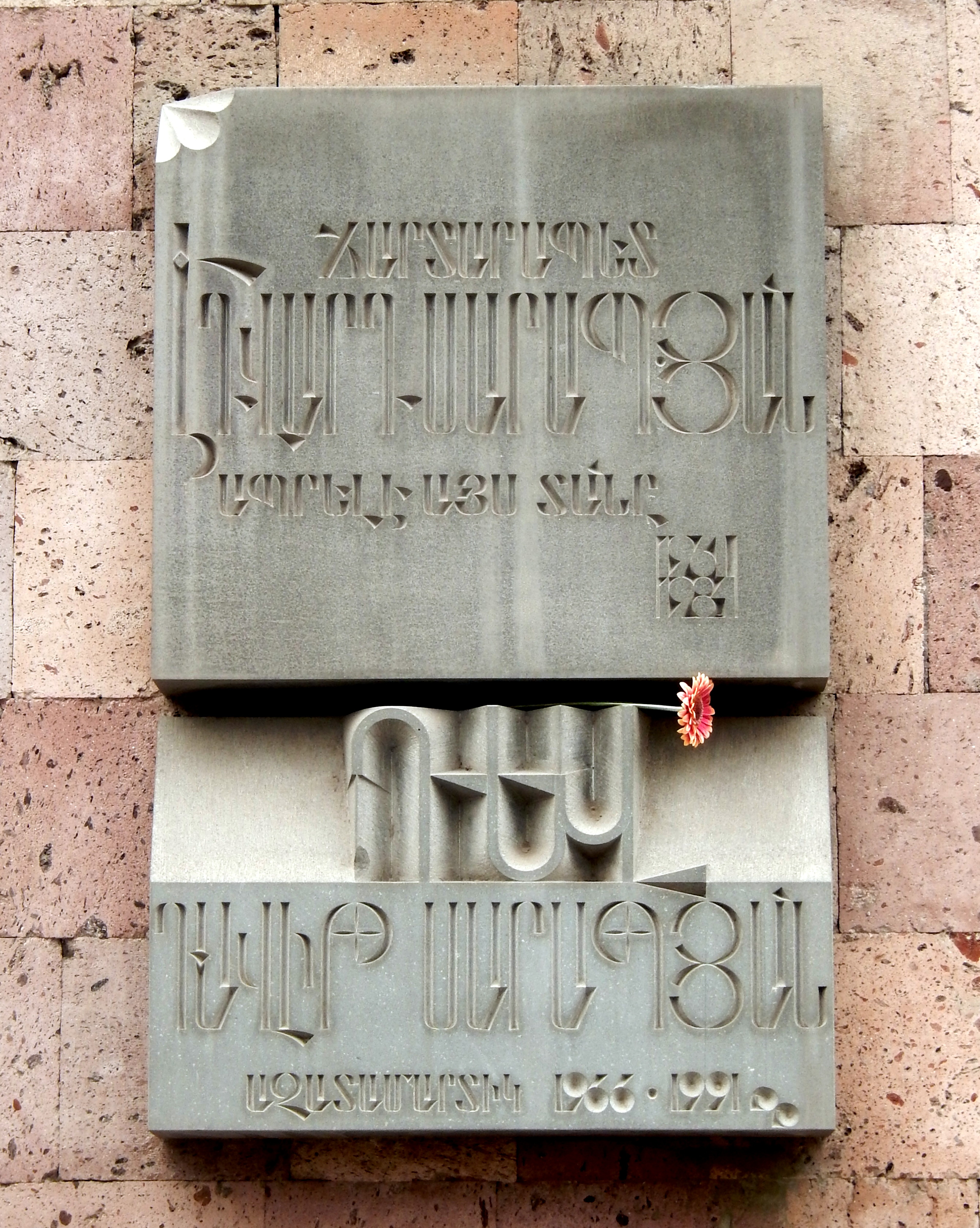 Edvard & Davit Sarapyan's plaque in Yerevan